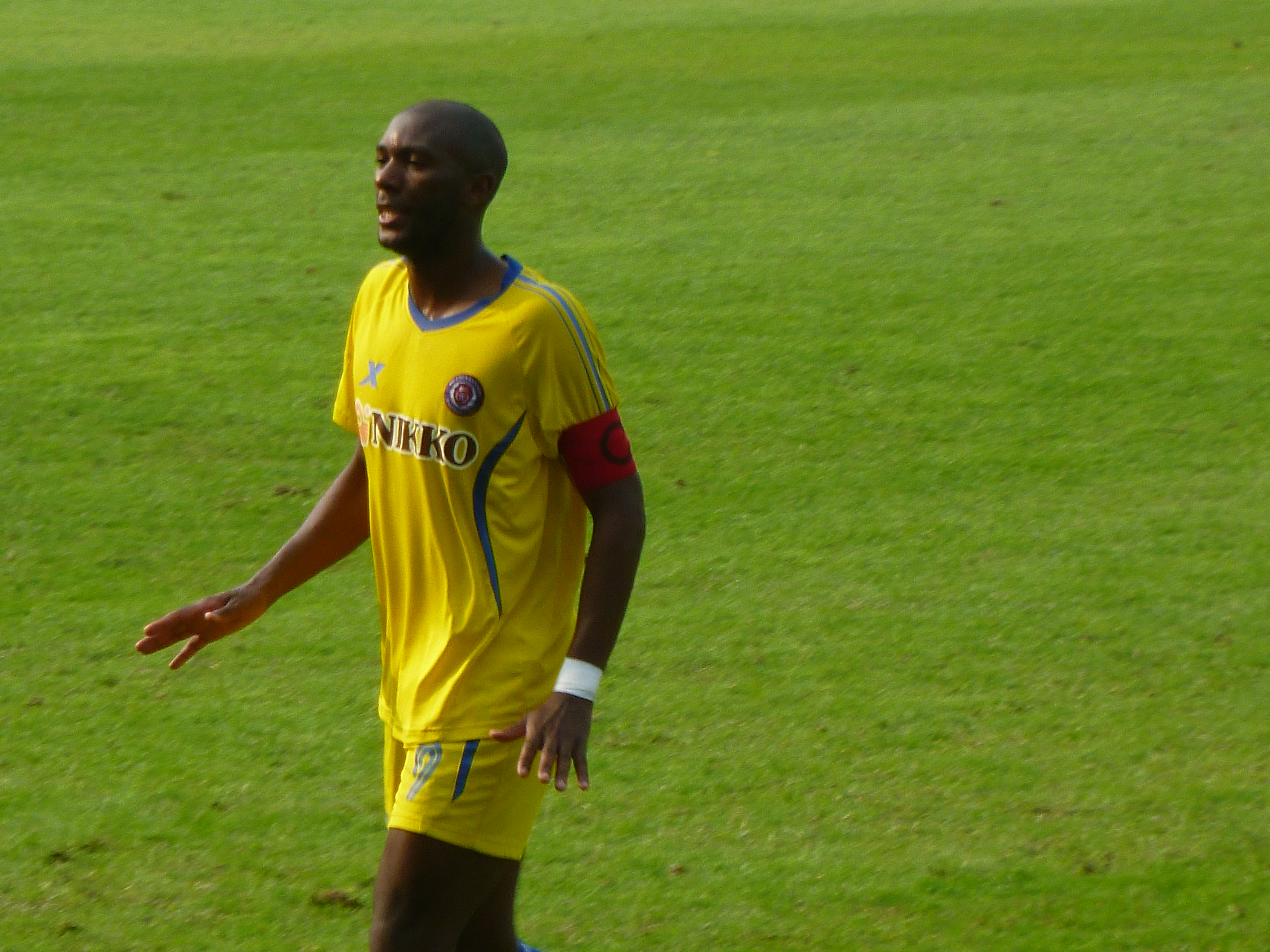 Alessandro Ferreira Leonardo (Sandro) - (8 Jan 2012 Hong Kong First Division League, Rangers vs Kitchee, Mong Kok Stadium)